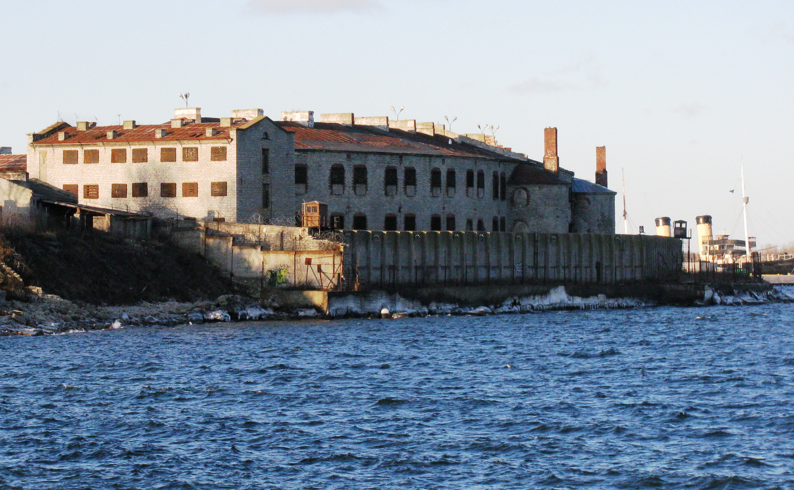 Nice location on the Baltic.